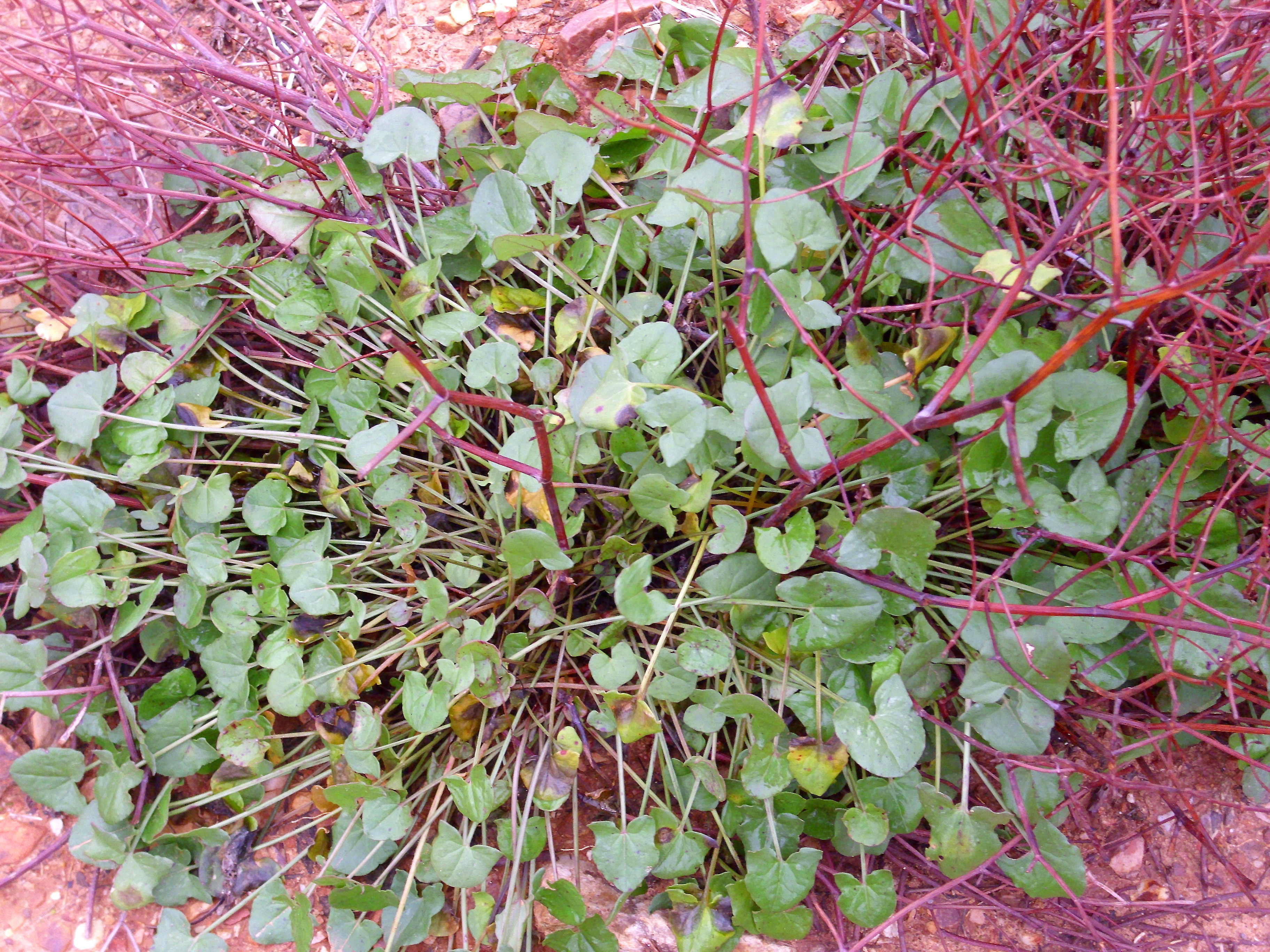 Rumex induratus leaves, Dehesa Boyal de Puertollano, Spain